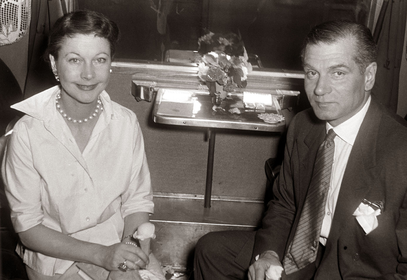 Vivien Leigh and Laurence Olivier on a train in Maribor.